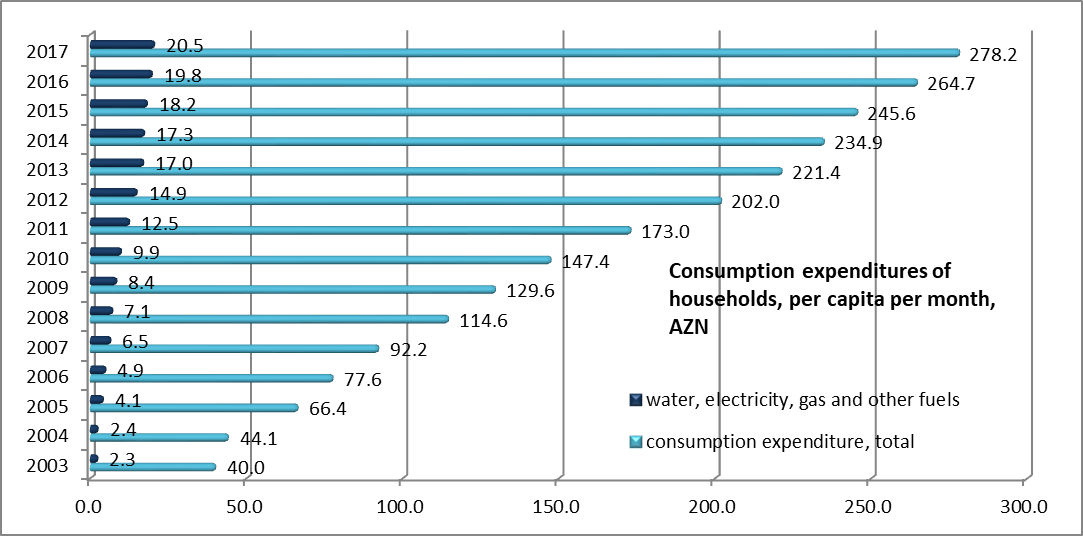 Consumption expenditures of households, AZN, per capita per month extracted State Statistical Committee of Azerbaijan - Budget of households - Consumption expenditures of the households - Consumption expenditures of households manat, per capita per month in 2001-2017